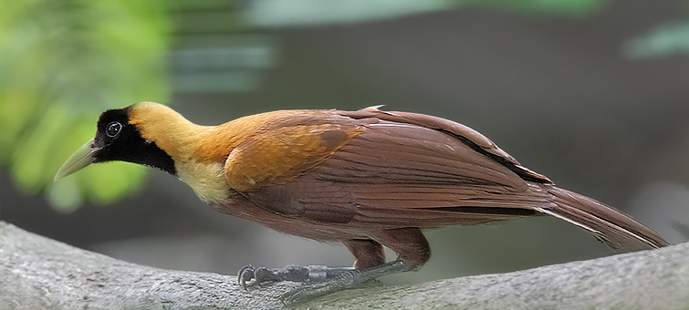 Red Bird of Paradise - Jurong Bird Park, Singapore